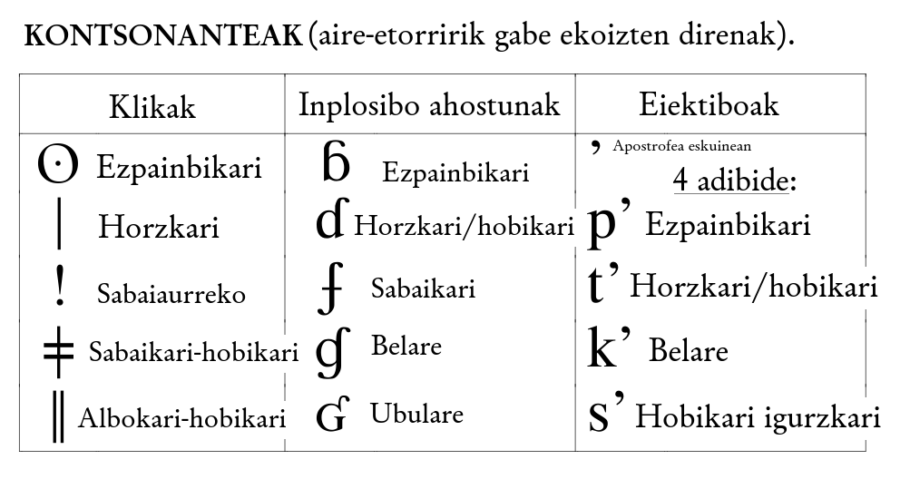 International Phonetic Alphabet translated into basque. Via IPA chart 2005. CONSONANTS (NON-PULMONIC)